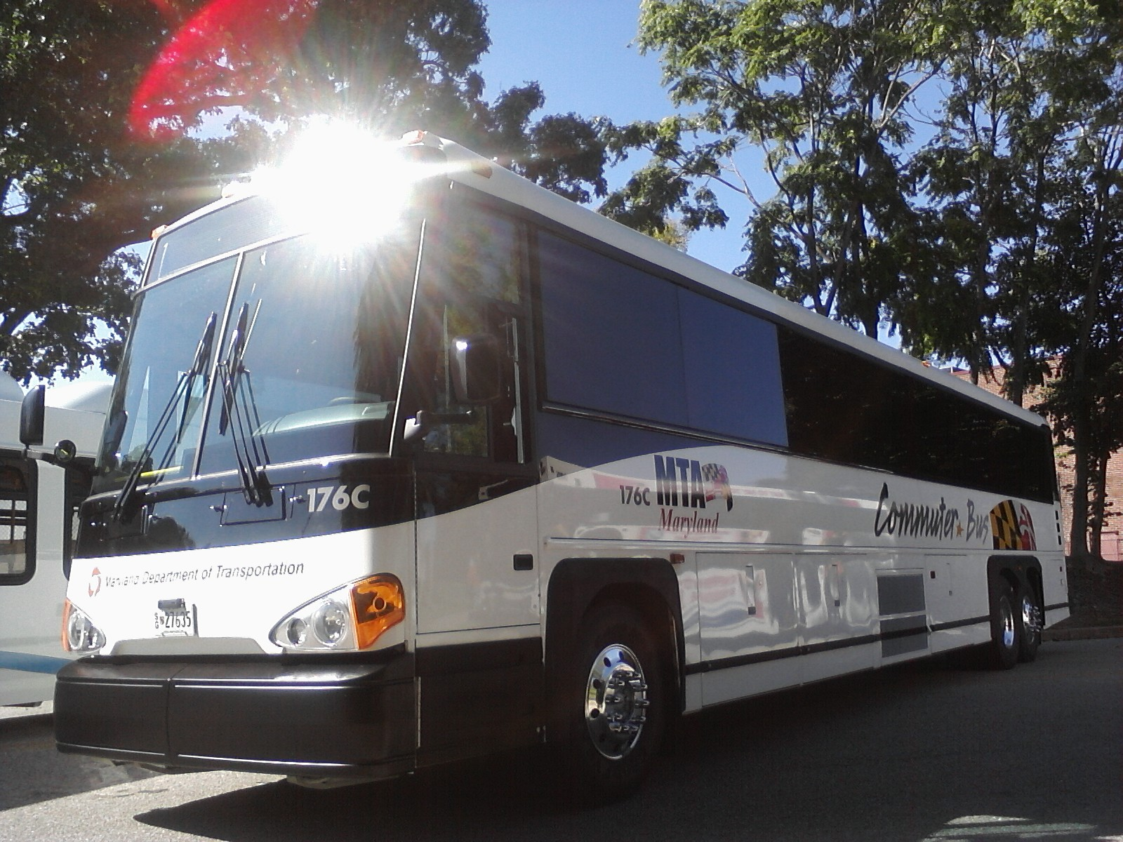 MTA Maryland MCI D4500CTH #176C.